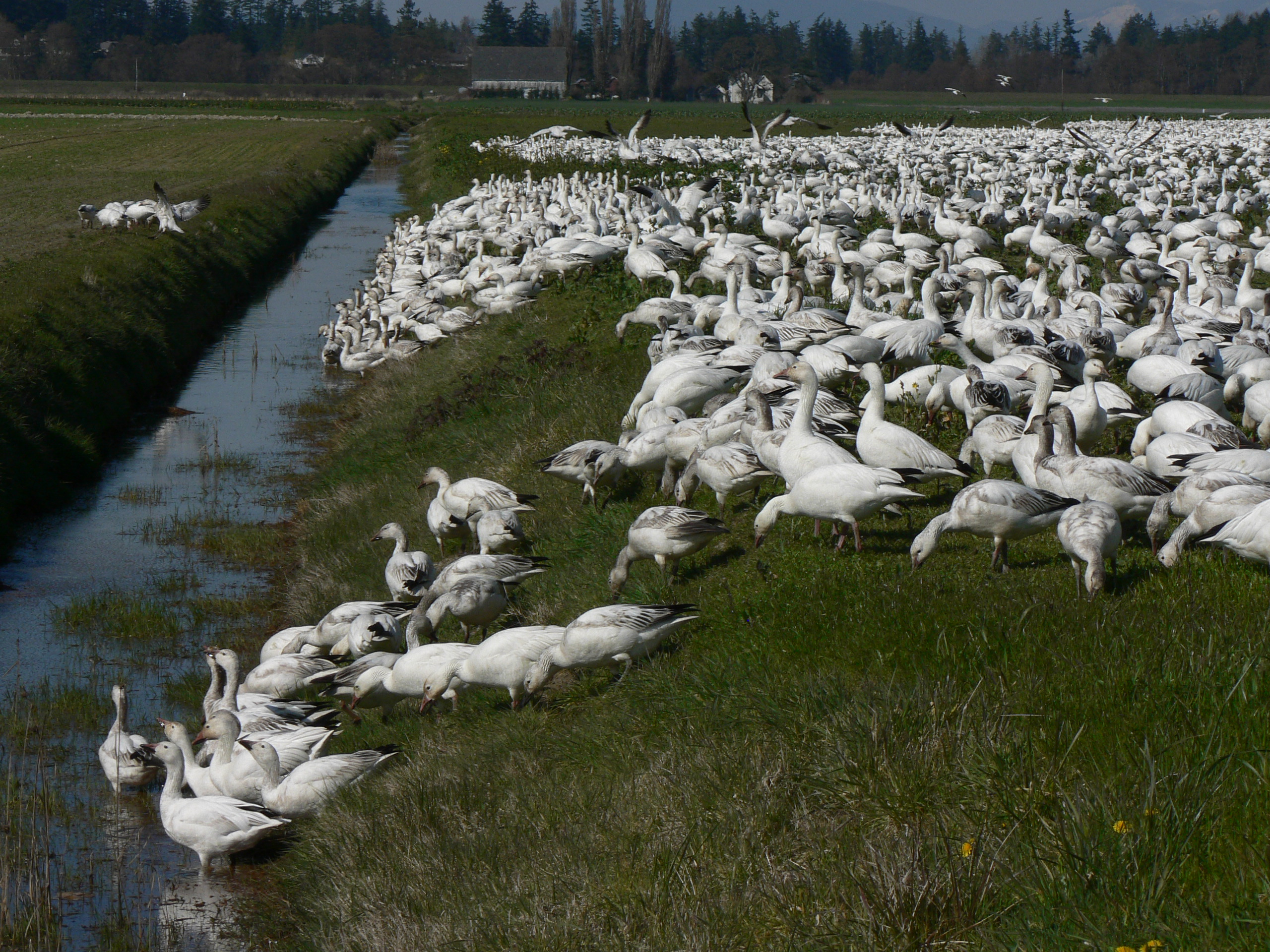 Lesser Snow Goose; drainage ditch